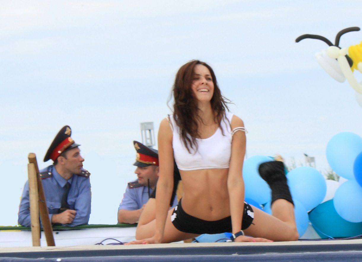 Fitness-aerobics under control, Severodvinsk